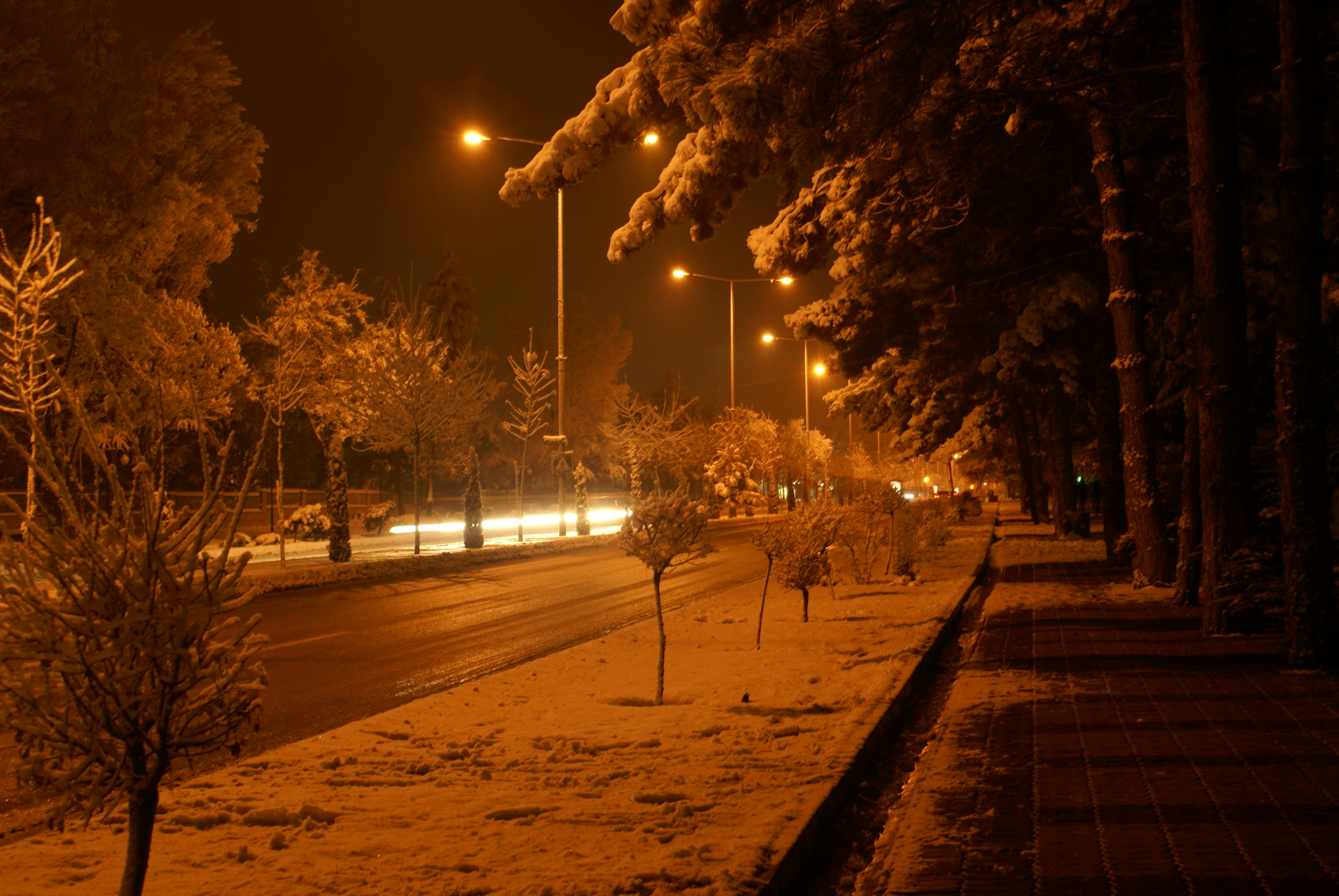 Zubeyde Hanim Street, Elazig in a cold winter night